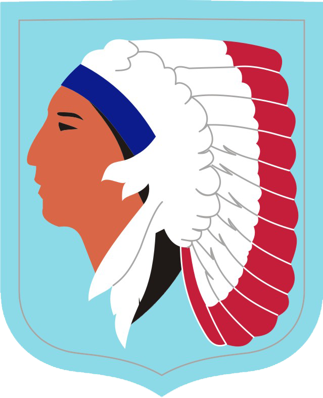 Shoulder Sleeve Insignia of Oklahoma's Joint Forces Heaquarters